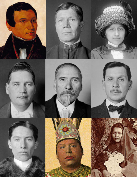 A collage of Tuscarora Native American from various Public domain sources